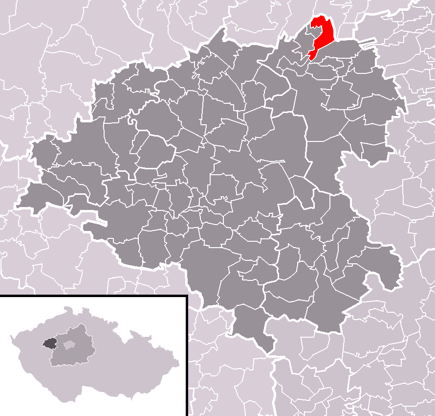 Location of Kozojedy municipality within Rakovník District and (identical) administrative area of Rakovník as a Municipality with Extended Competence.